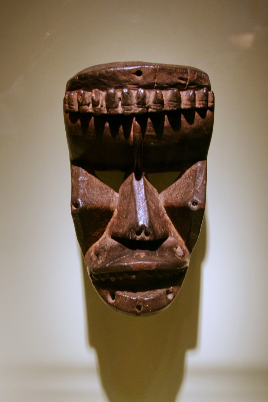 Mask, Krahn peoples, Liberia, Late 19th century, Wood National Museum of African Art, Washington, DC